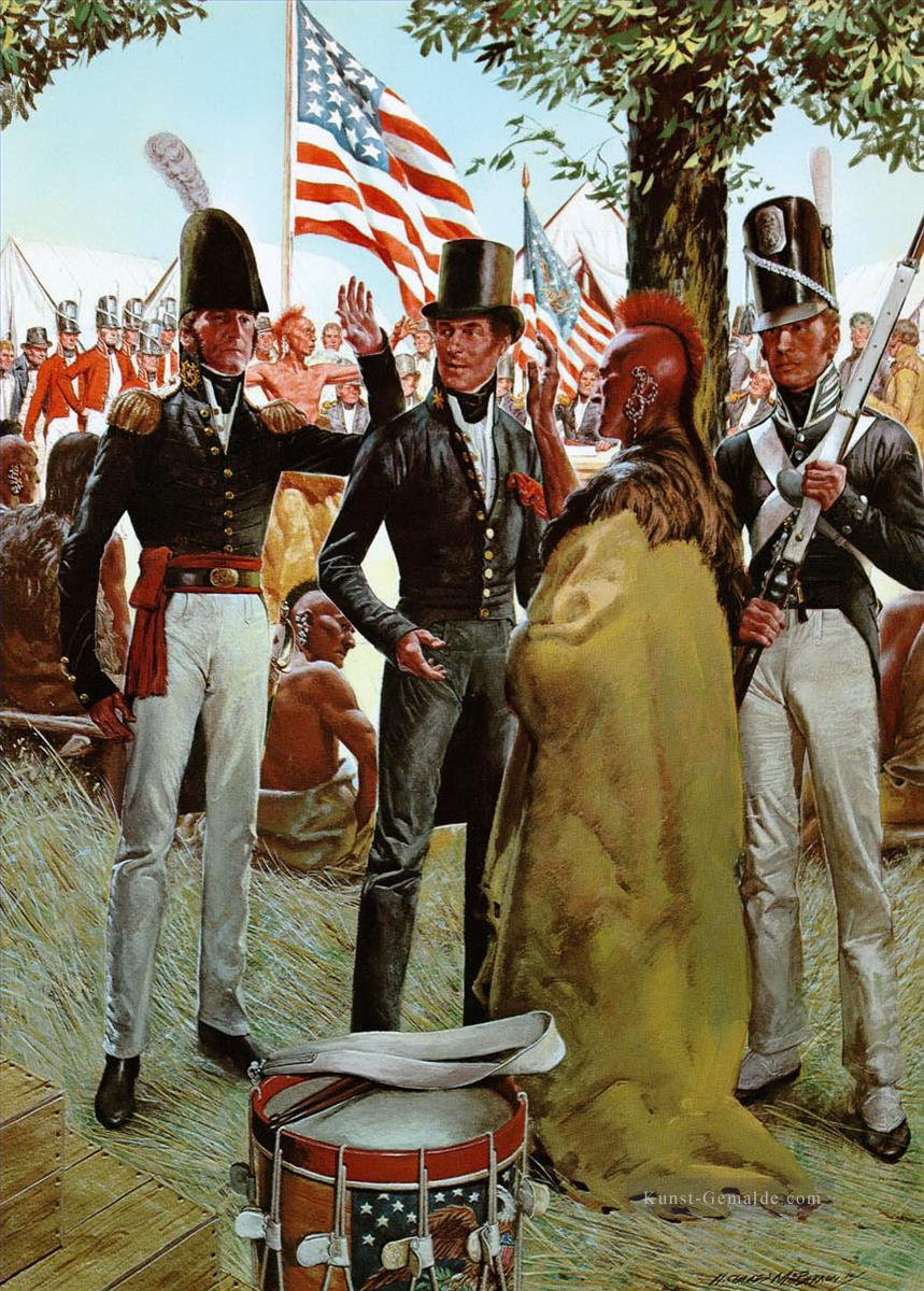 In the center foreground we see a Native American chief wearing a buffalo hide robe, with a scientist wearing the United States Explorers uniform alongside him. In the right foreground there is an infantry private. In the left foreground is Maj. Stephen H. Long, leader of an expedition sent to explore the land between the Missippippi and Missouri Rivers.